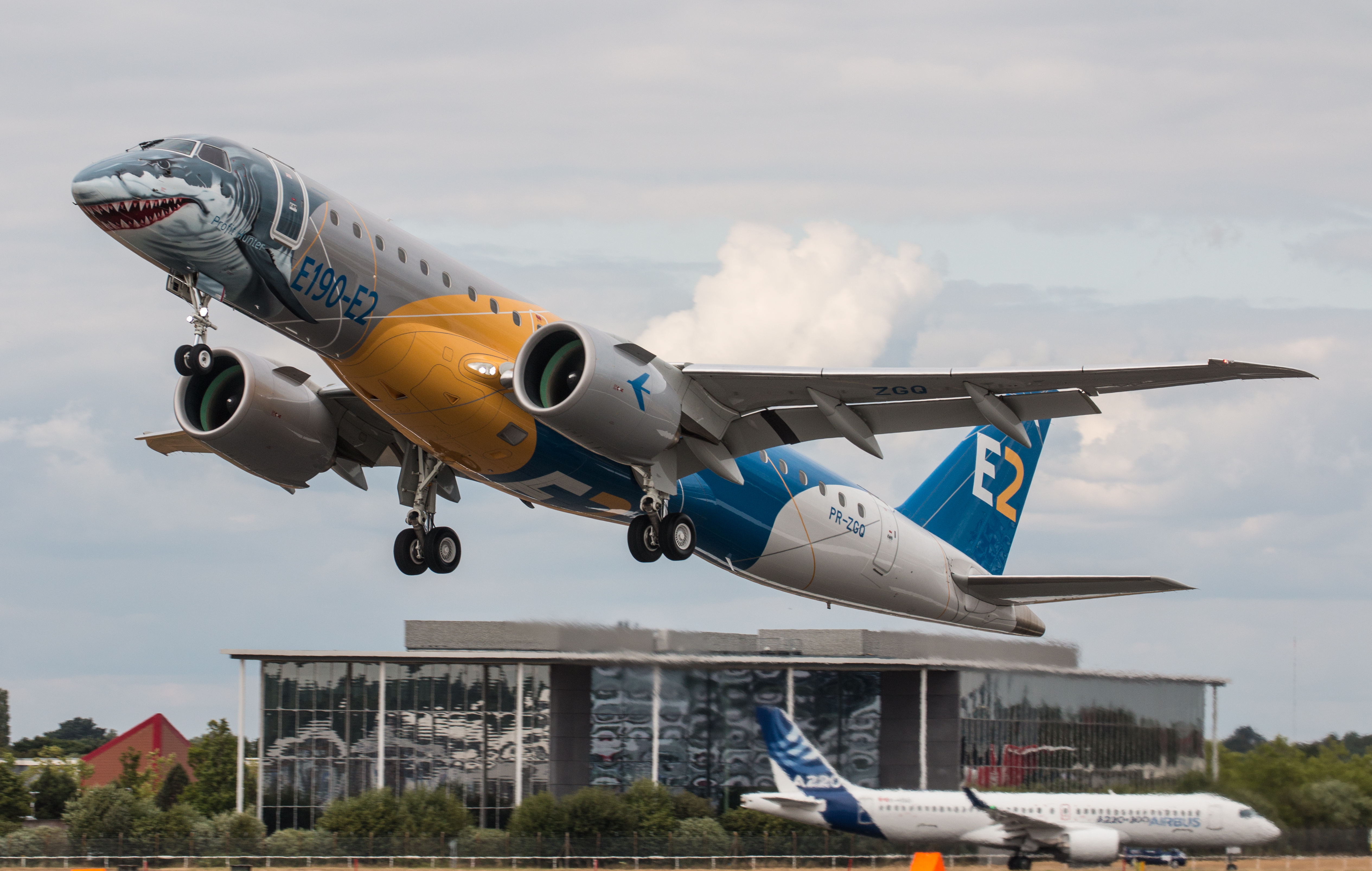 Farnborough International Airshow 2018, Hampshire